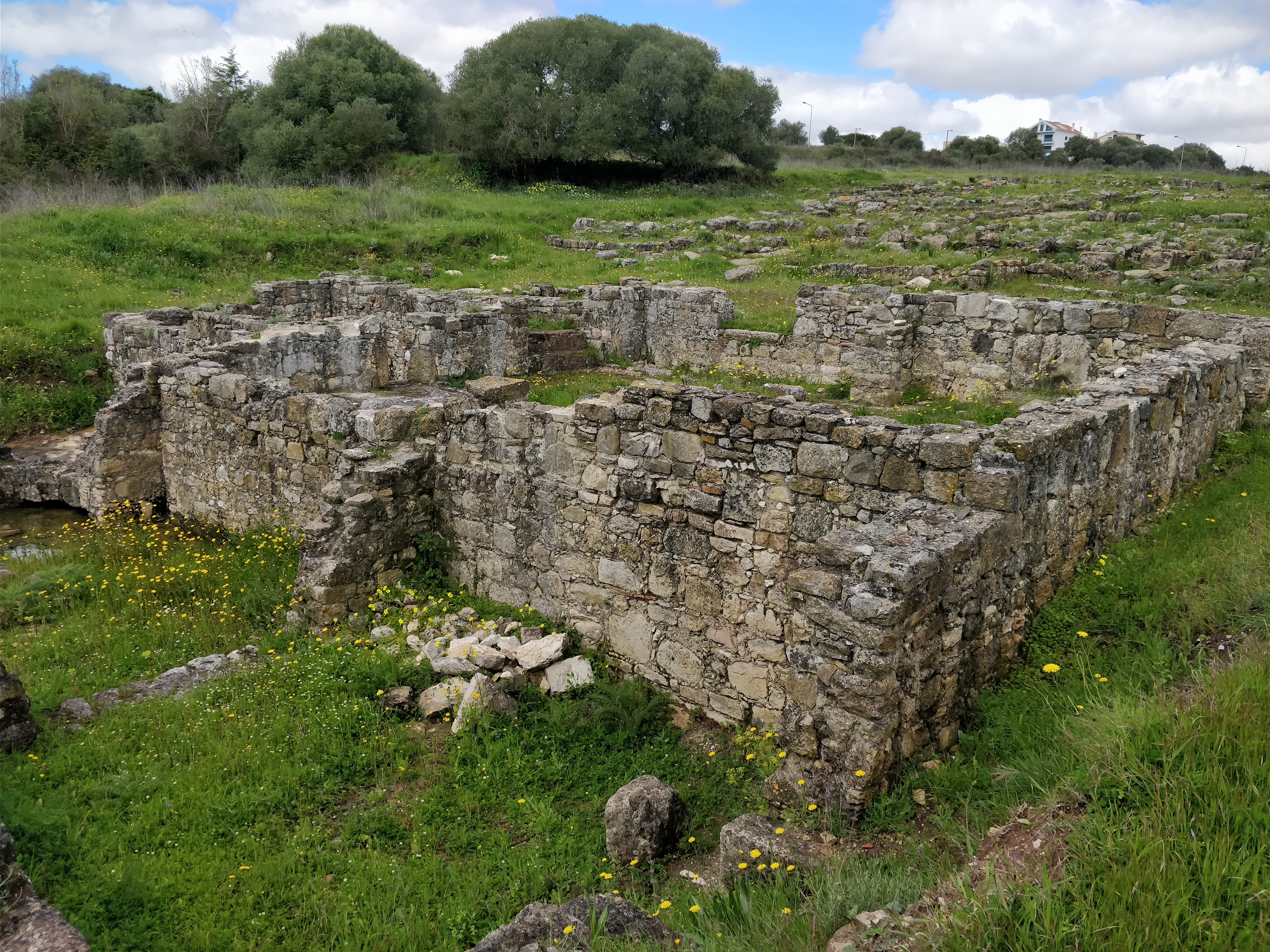 View of the Roman Villa of Freiria in Cascais Municipality, Portugal